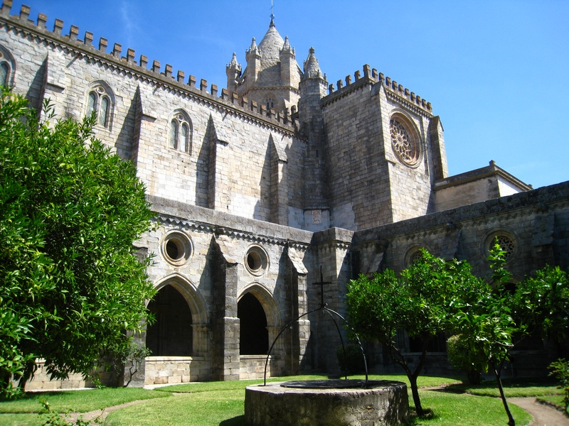 Cloisters of Evora Catedral, Evora, Portugal